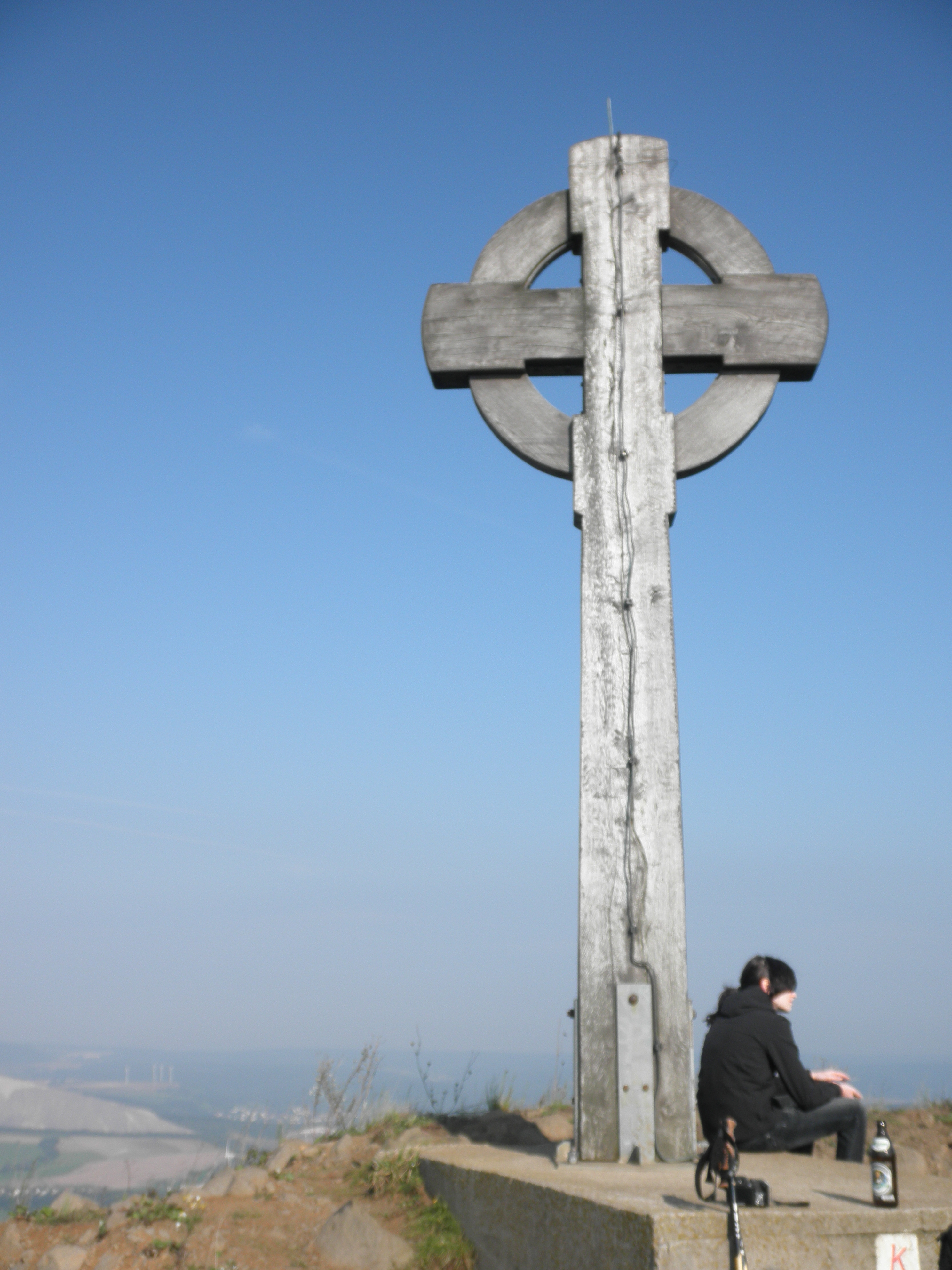 Celtic Cross on Top of Oechsen / Rhön